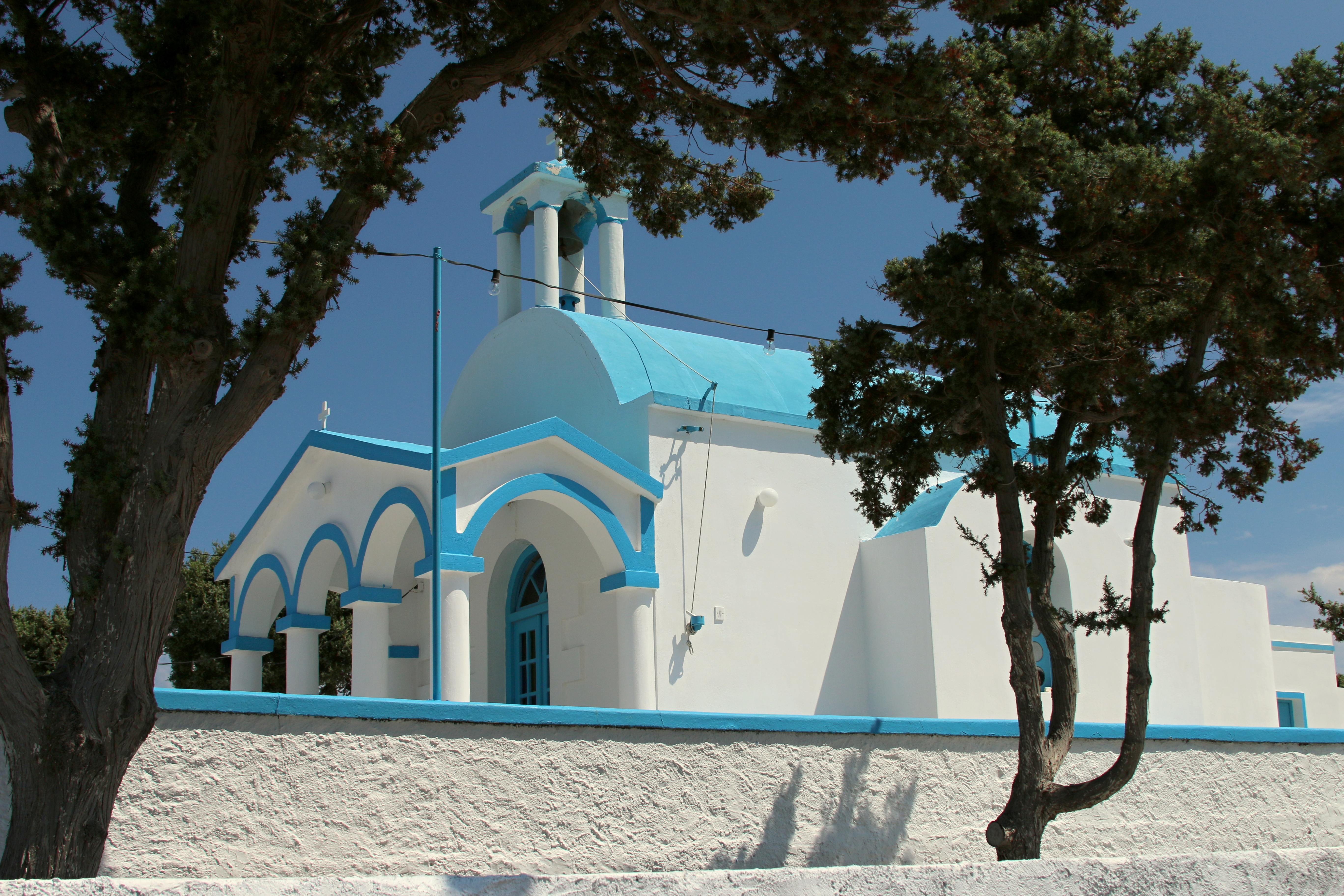 Agios Nikolaos in Pollonia on Milos.